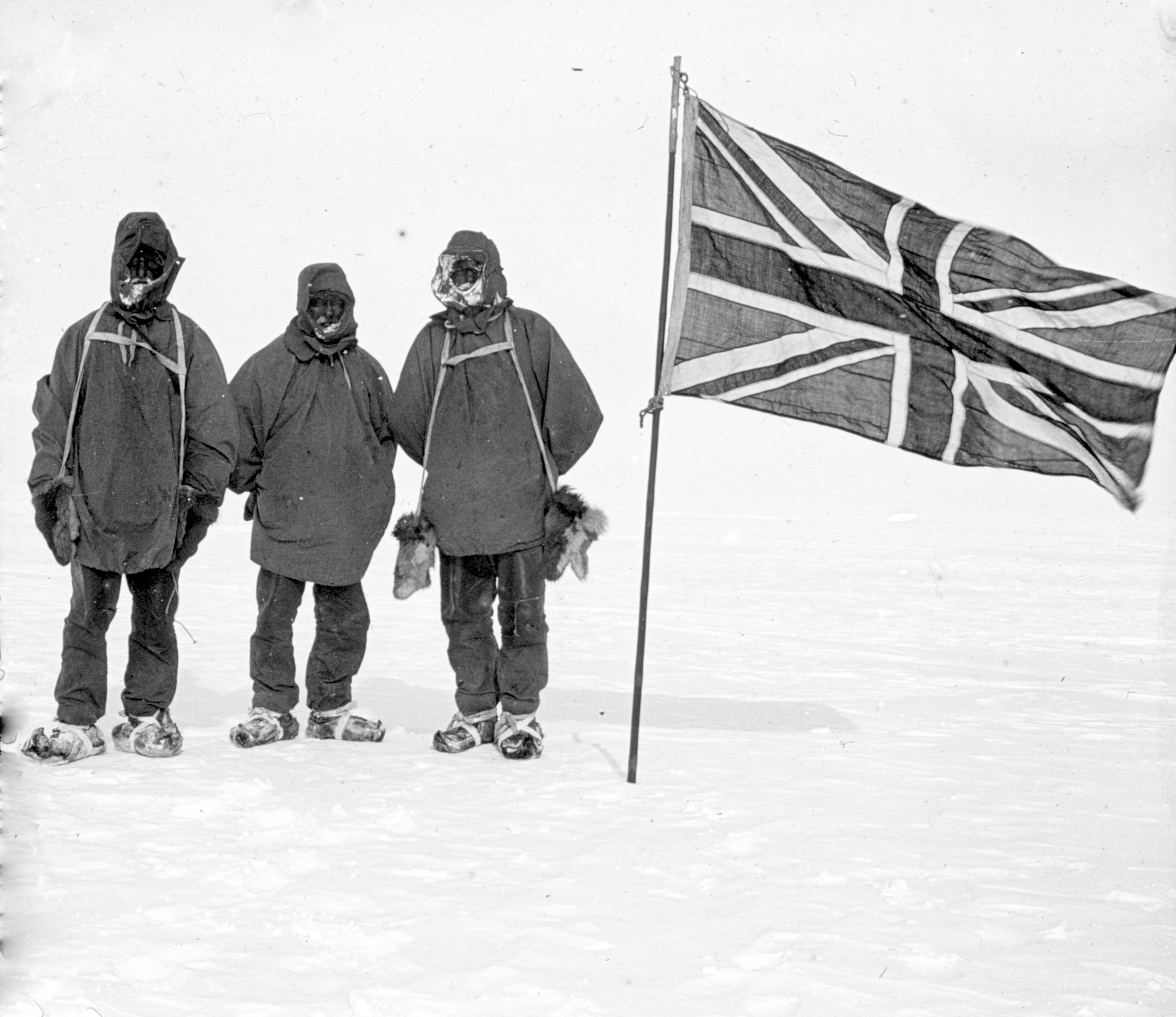 Photographs of the Nimrod Expedition (1907-09) to the Antarctic, led by Ernest Shackleton